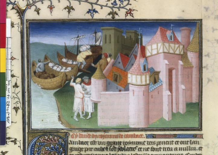 The city of Cambay was an important Indian manufacturing and trading center noted by Marco Polo and illustrated here in the 15th century. BIBLIOTHEQUE NATIONALE / ARCHIVES CHARMET / BRIDGEMAN ART LIBRARY (BOUCICAUT MASTER))